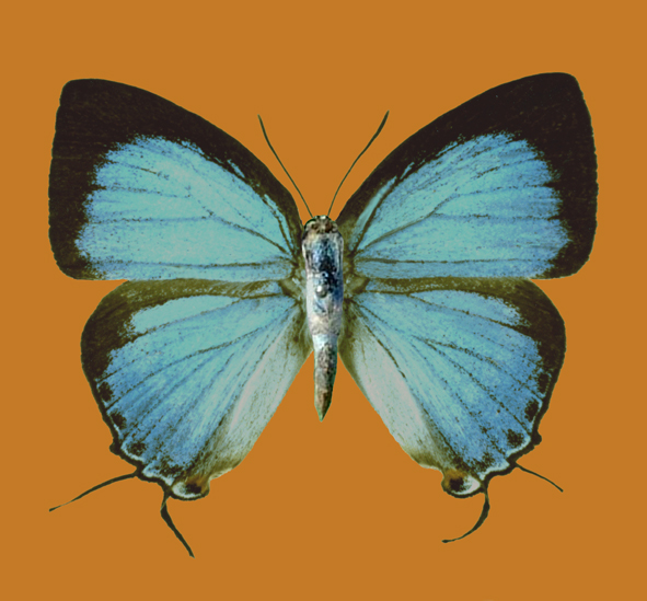 Matsutaroa iljai female upperside